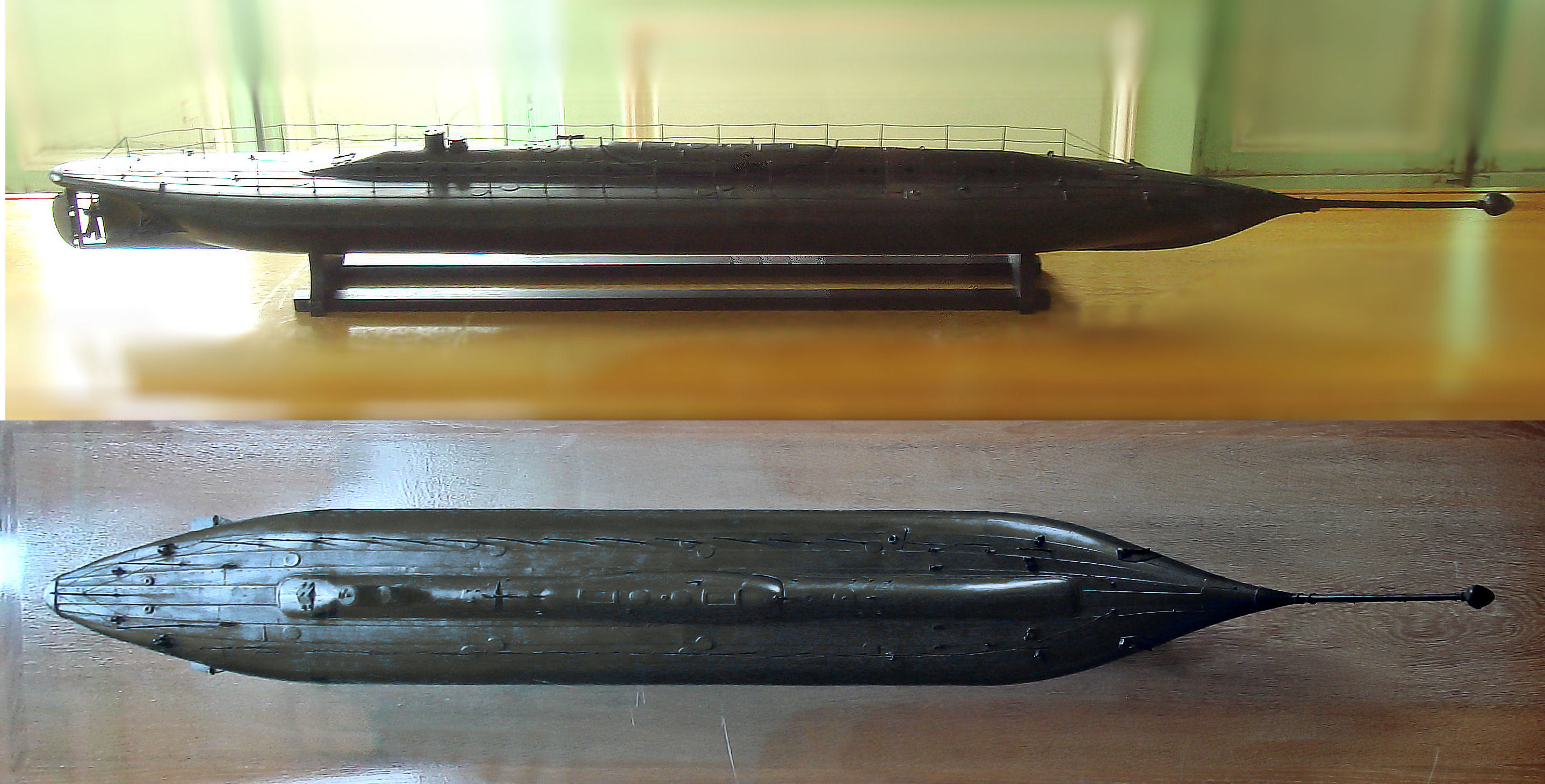 Plongeur_Rochefort_top_and_side_views.